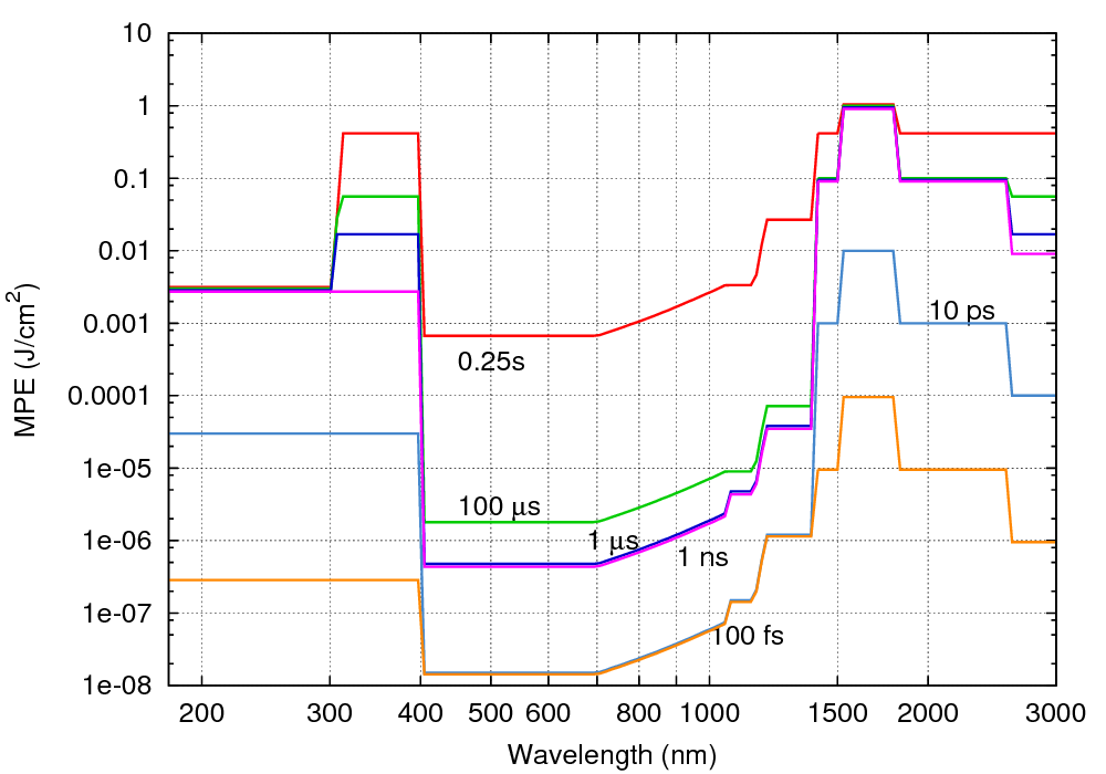 Created by Han-Kwang based on IEC 60825 formulas. Energy versus wavelength. See also File:IEC60825 MPE J s.png and File:IEC60825 MPE W s.png. Plot is based on Table A.1 "Maximum permissible exposure limit for C6 equals 1 at the cornea" in IEC 60825-1, Edition 2.0 2007-03. Note that the MPE does not depend on wavelength in the range 2.9 to 10 micrometers. Hence, for 10 micrometer wavelength, one can read the value at 3 micrometers.